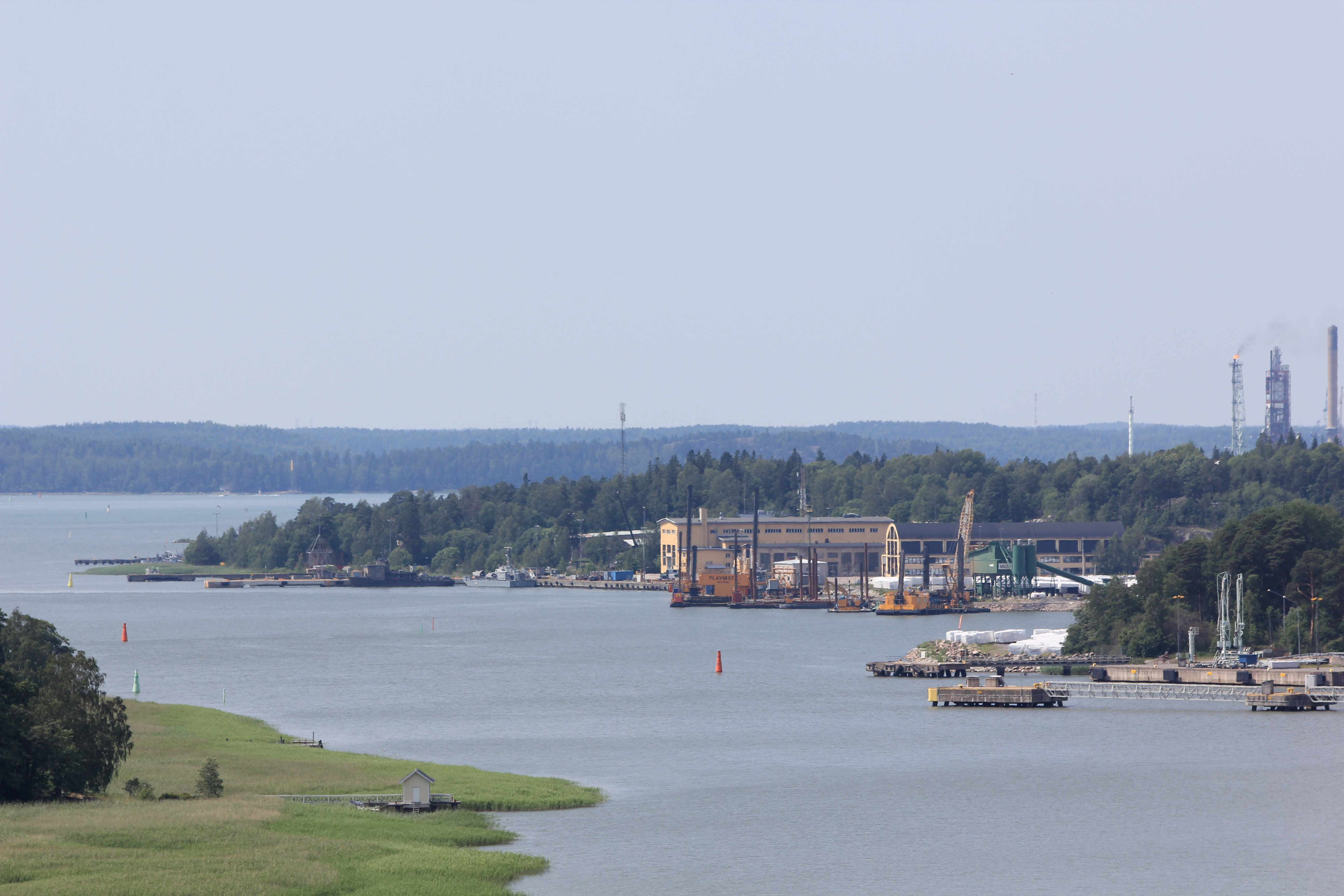 Pansio naval base in Turku. Ships in harbour include minesweeper Kuha 26 and likely Isku. Photographed from a bird observation tower in Ruissalo.